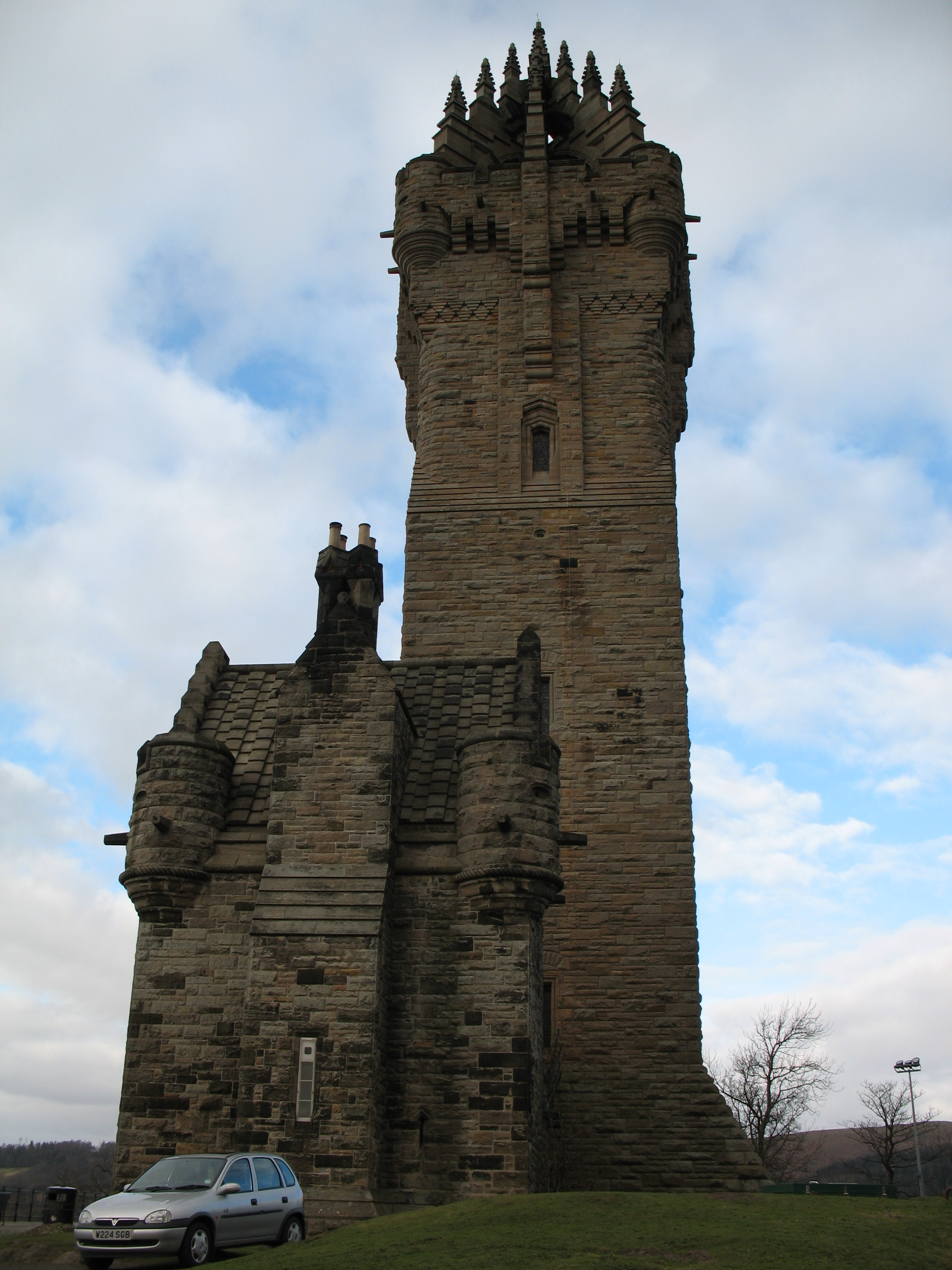 Wallace monument Stirling, Scotland, February 2006